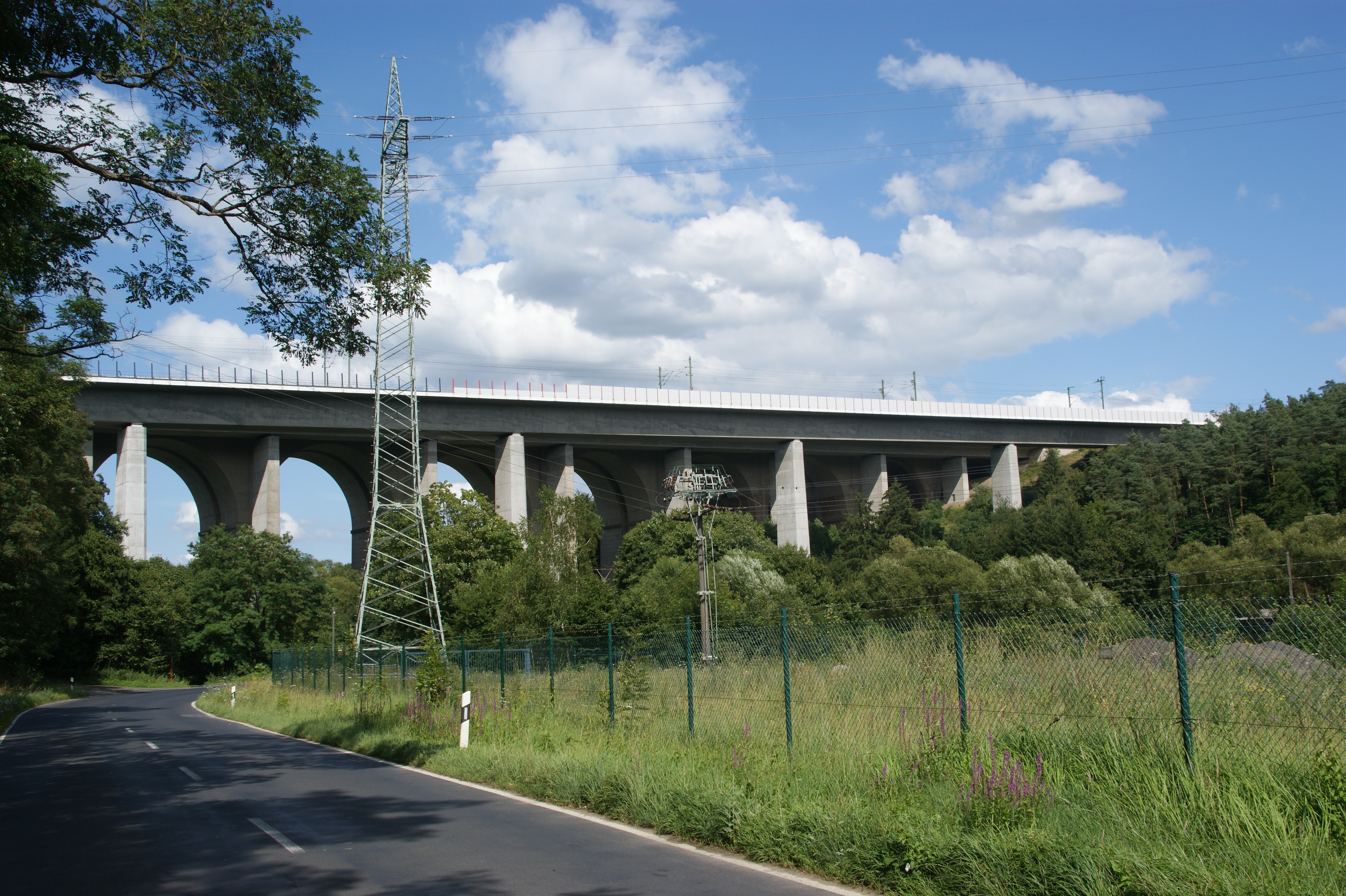 Wiedtal bridge on the Cologne-Frankfurt high-speed railway line